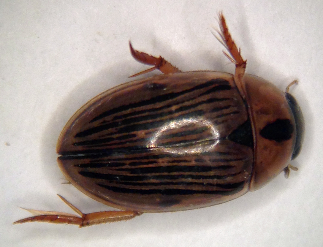 Dorsal view of a dead adult Tropisternus collaris collected at Tyson Research Center, Missouri in summer 2012.